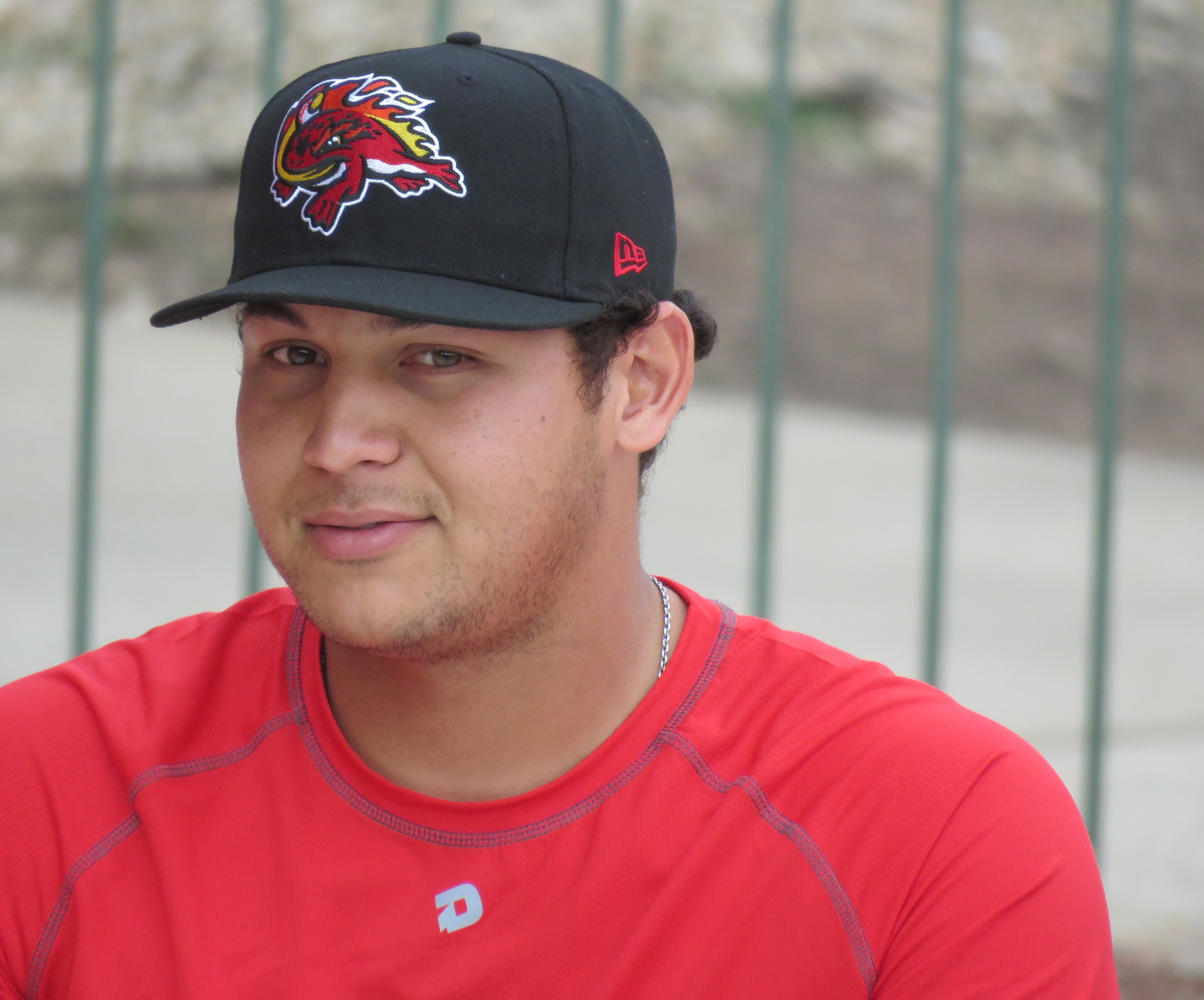 Jackson in the dugout